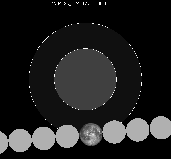 lunar eclipse chart of moon's penumbral lunar eclipse path through the earth's shadow. thumb